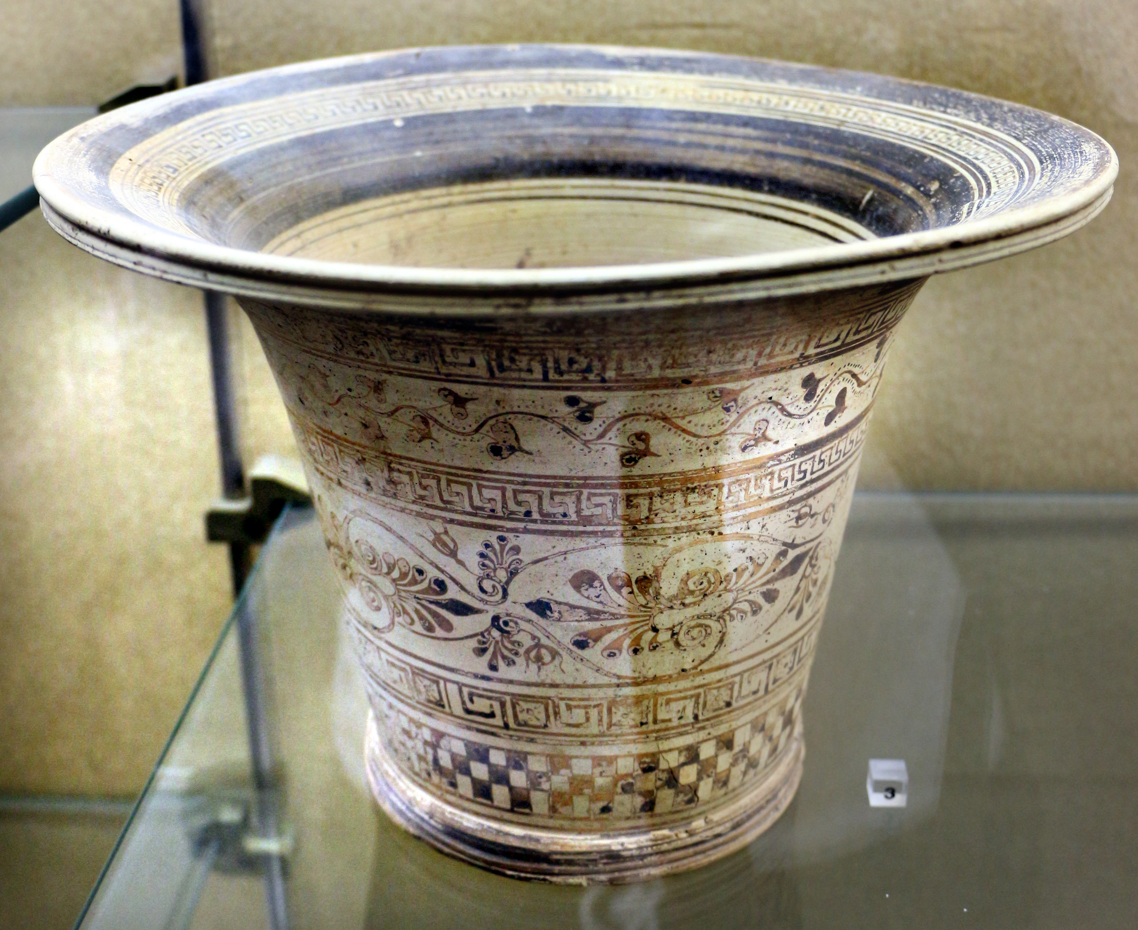 Apulian pottery in the Museo Archeologico Nazionale (Altamura)